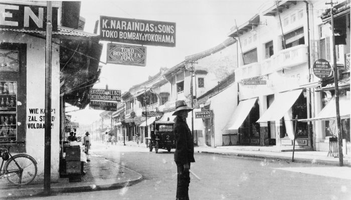 Jalan Pasar Baru with many shops, here mainly Indian and Japanese stores.